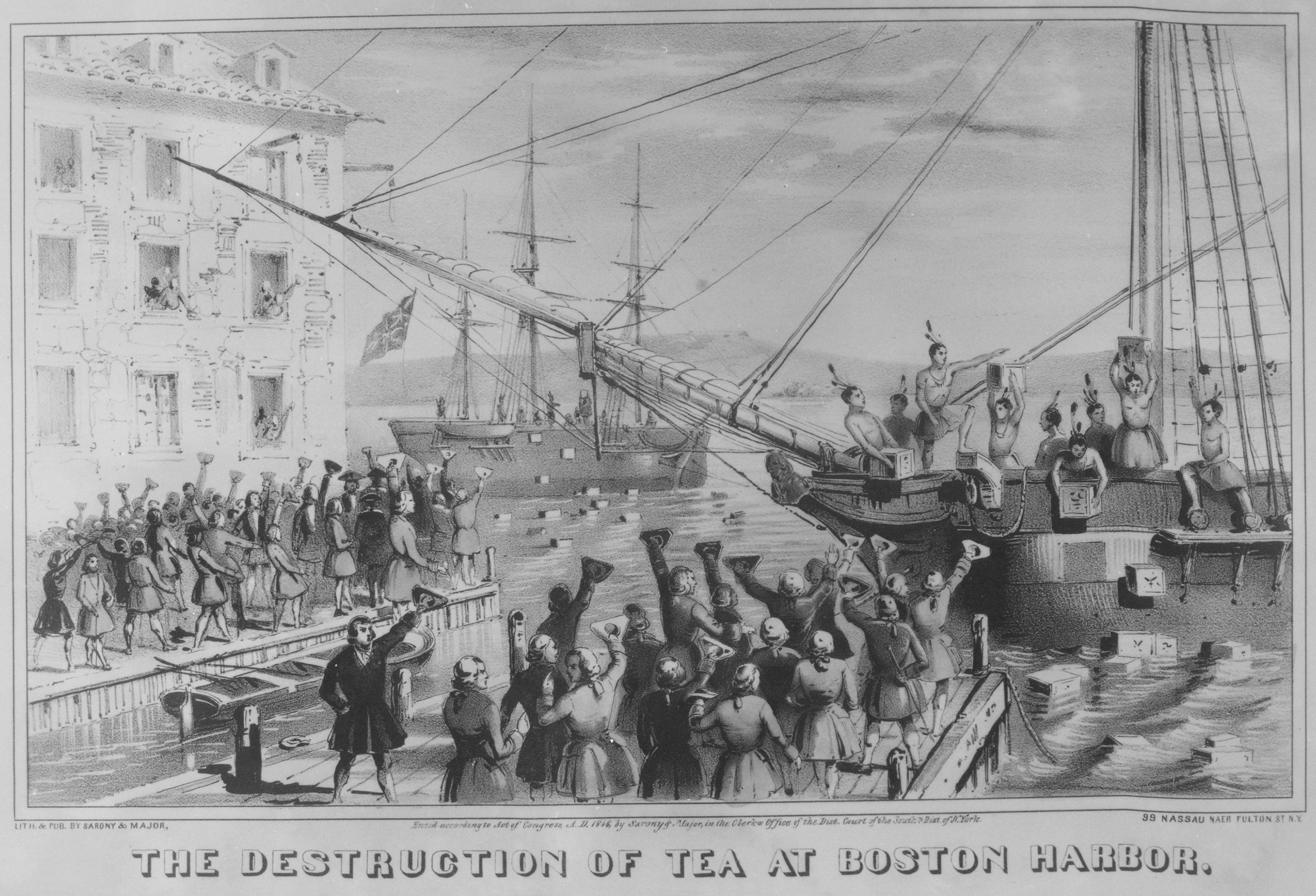 Boston Tea Party: Colonists dumped the British's tea into the Boston Harbor. The reason being that they were angry at the British government for taxing the colonies. While the colonists were doing this you can see in the picture that they had dressed up as Mohawk Indians.